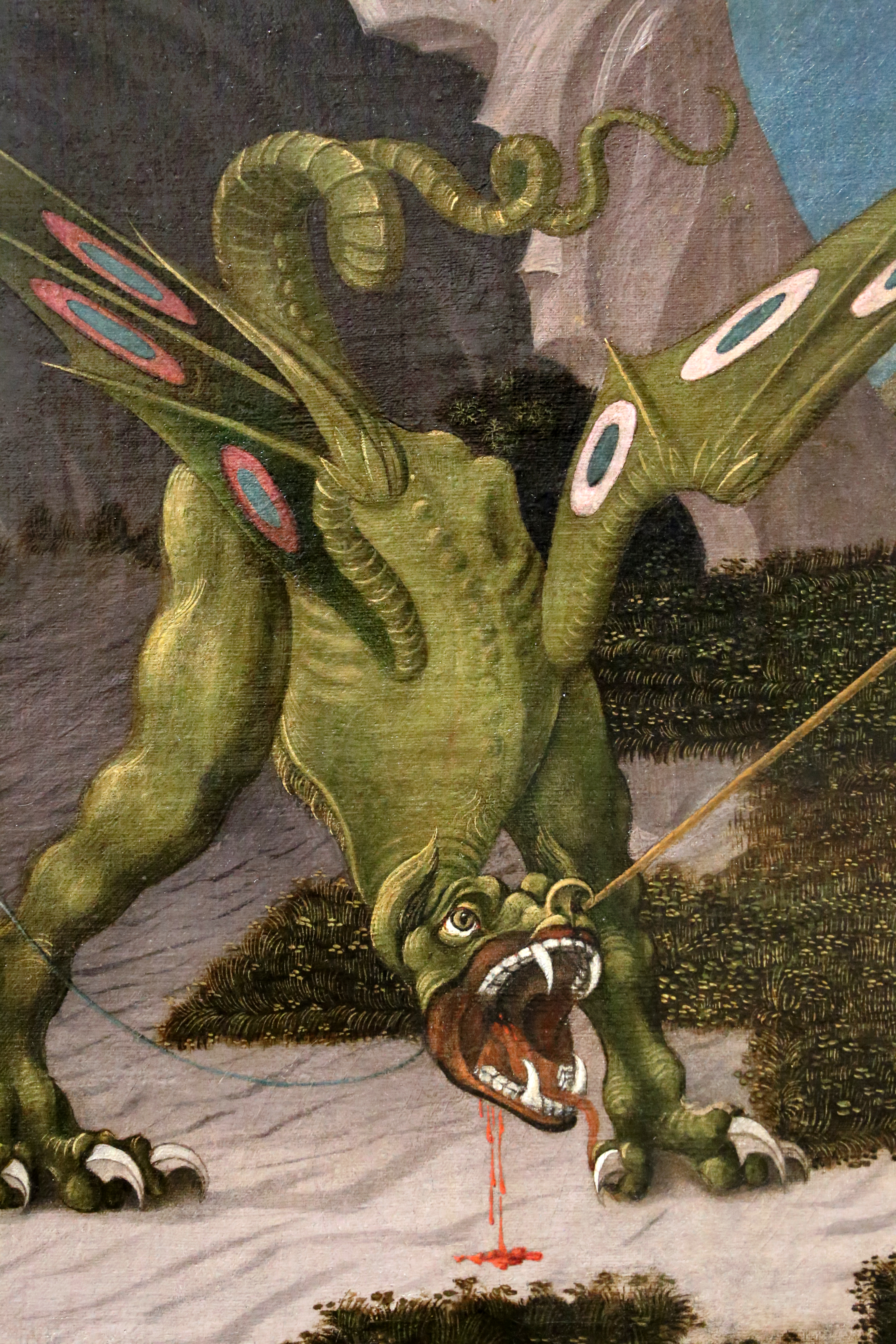 Paintings by Paolo Uccello in the National Gallery, London